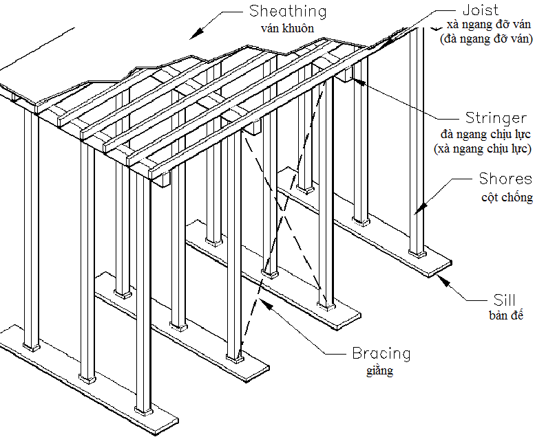 Schematic representation of a traditional slab formwork for concrete